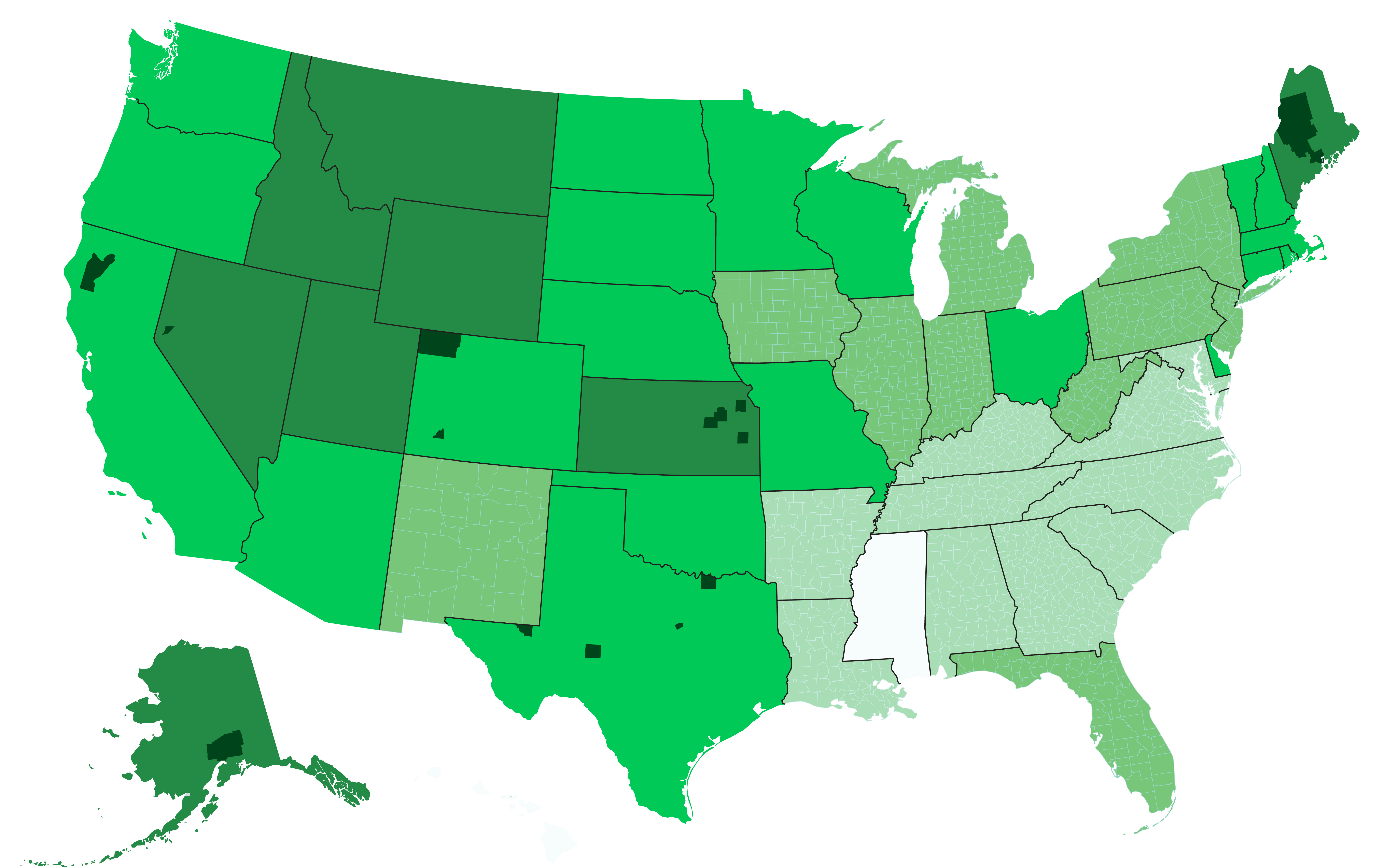 Perot winning counties and states by percentage